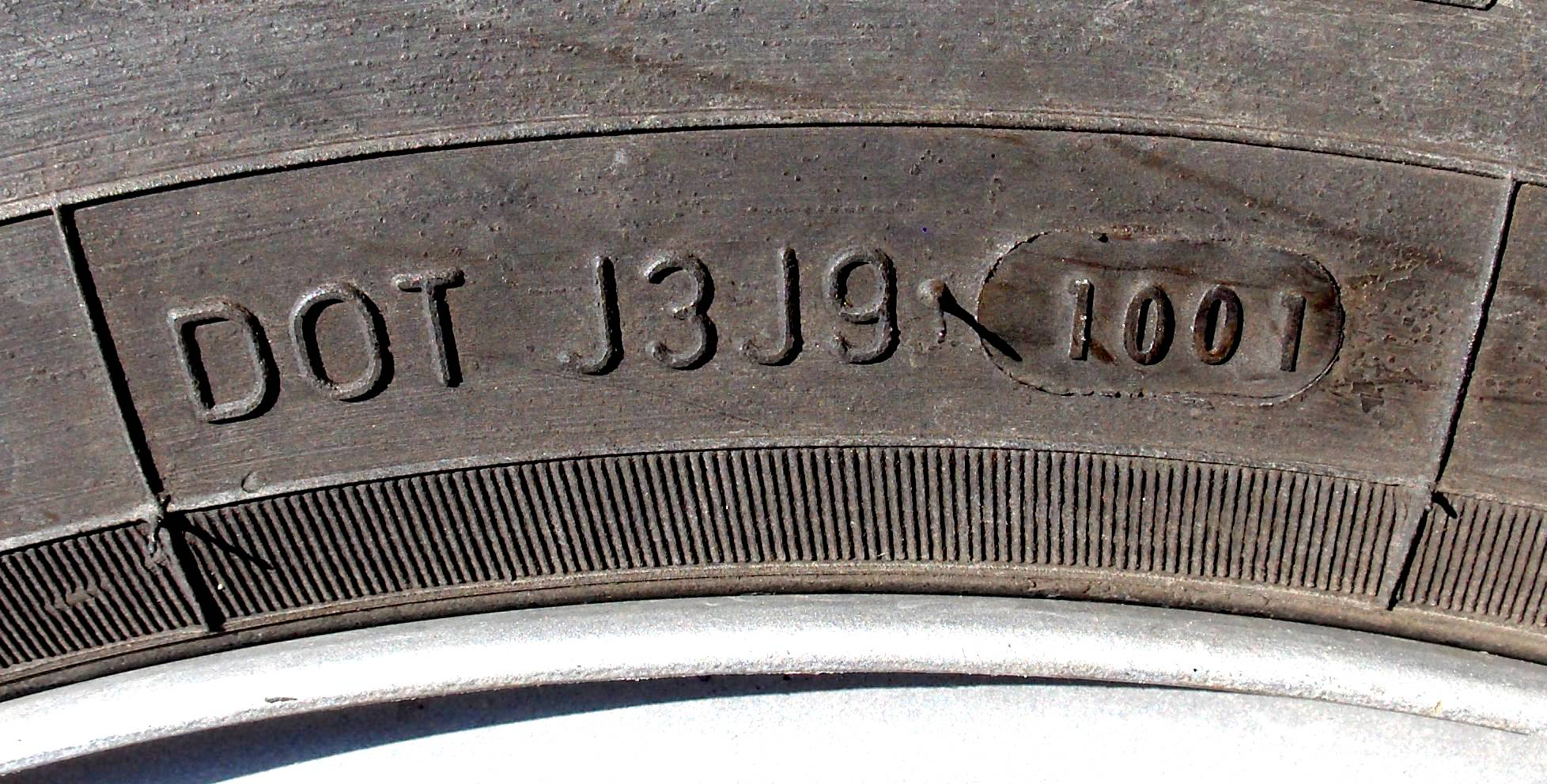 Part of DOT code representing the week and year of manufacturing